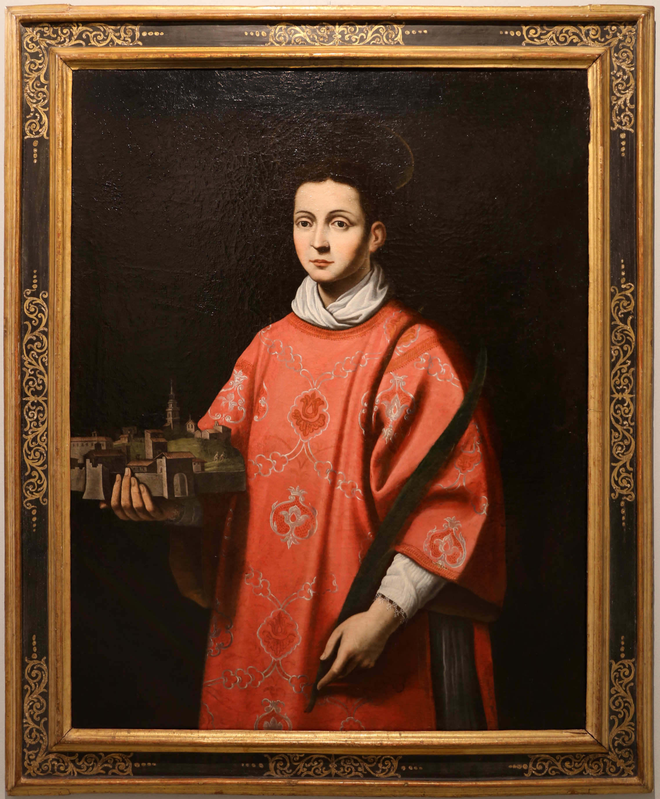 Paintings in the Museo nazionale d'Abruzzo